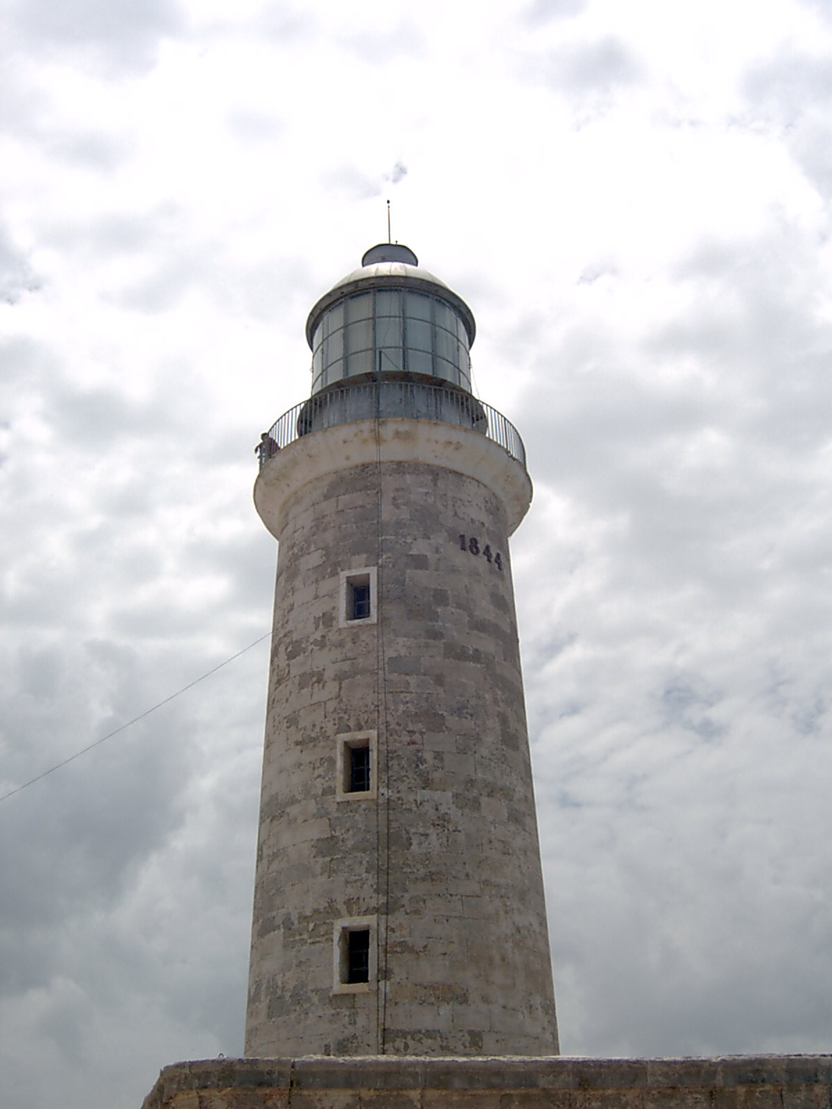 The lighthous of the El Morro Castle in La Habana